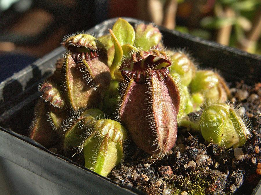 Cephalotus follicularis in cultivation